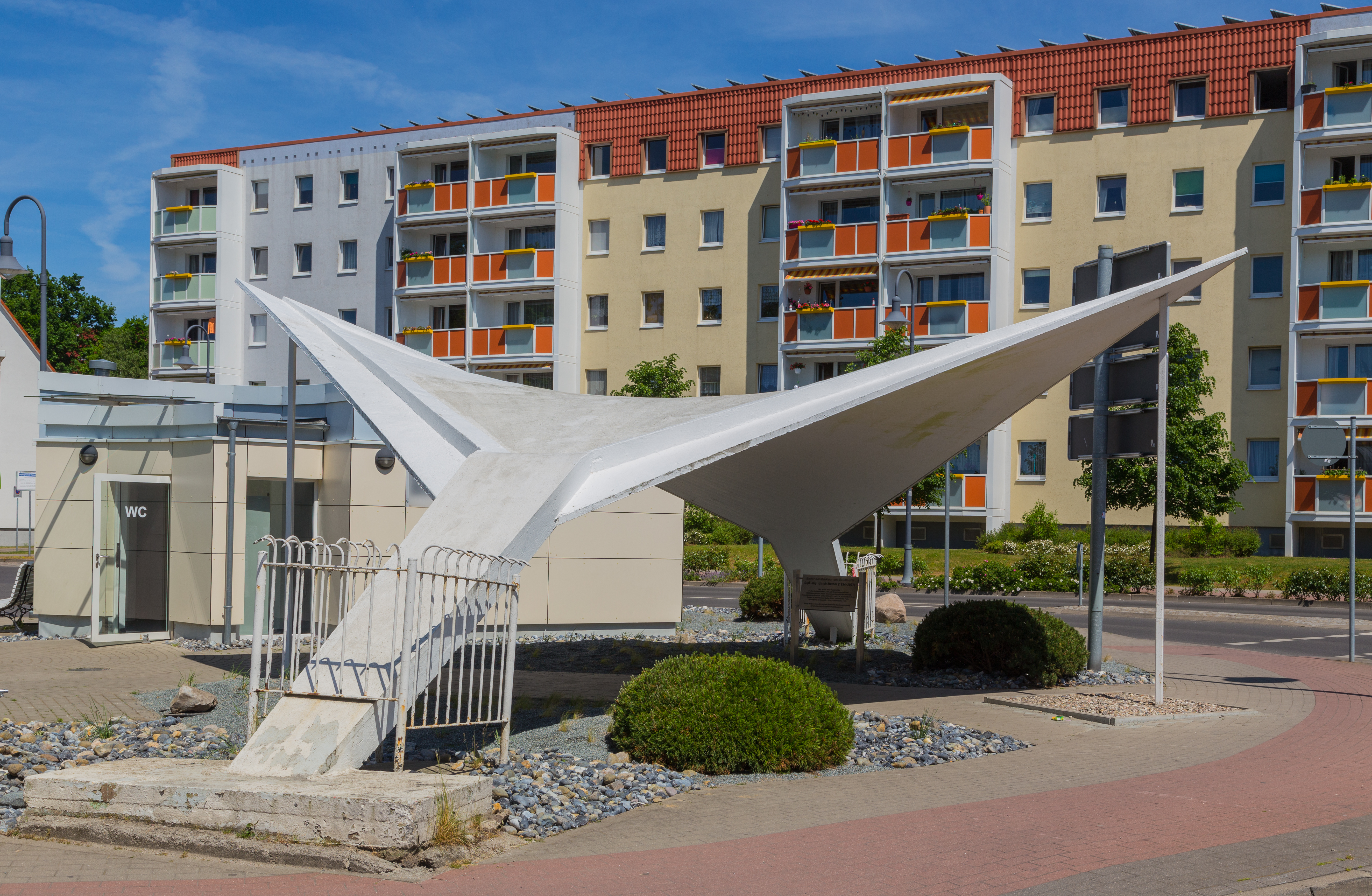 Bus shelter at Dollahn Street (Dollahner Straße) in Binz, Landkreis Vorpommern-Rügen, Mecklenburg-Vorpommern, Germany. This hypar, erected in 1967, was designed by German civil engineer Ulrich Müther. The building is a listed cultural heritage monument.